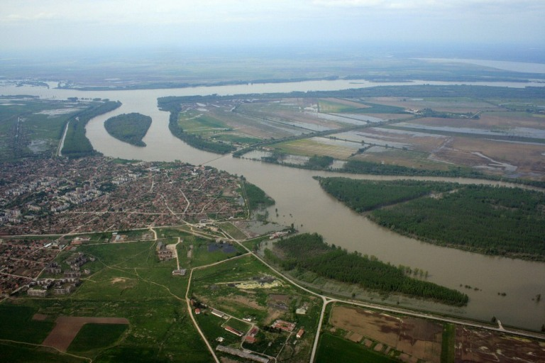 Belene_flight_over